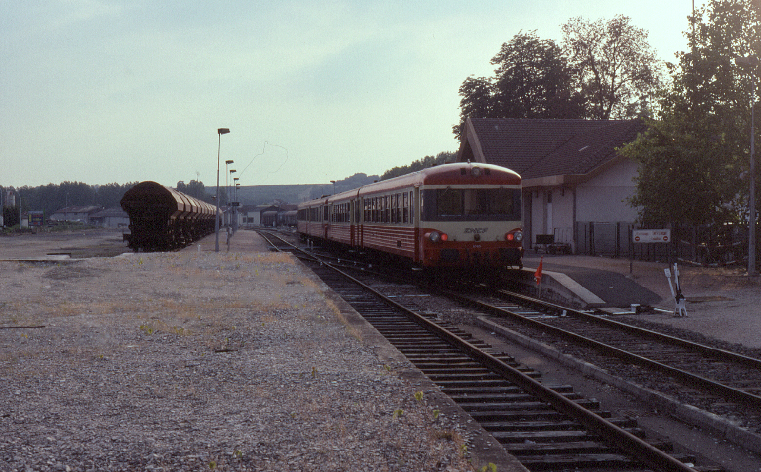 Provins train station, Seine-et-Marne, France. The short branch from Longueville to Provins was covered om 3 June 1991. Seen here at Provins (Seine-et-Marne) is a 4-car "Caravelle set" having worked the 19:23 Longueville to Provins (Seine-et-Marne). Closest to the camera is car X 8565 with X 4533, X 8634 and X 4609 in that order behind.